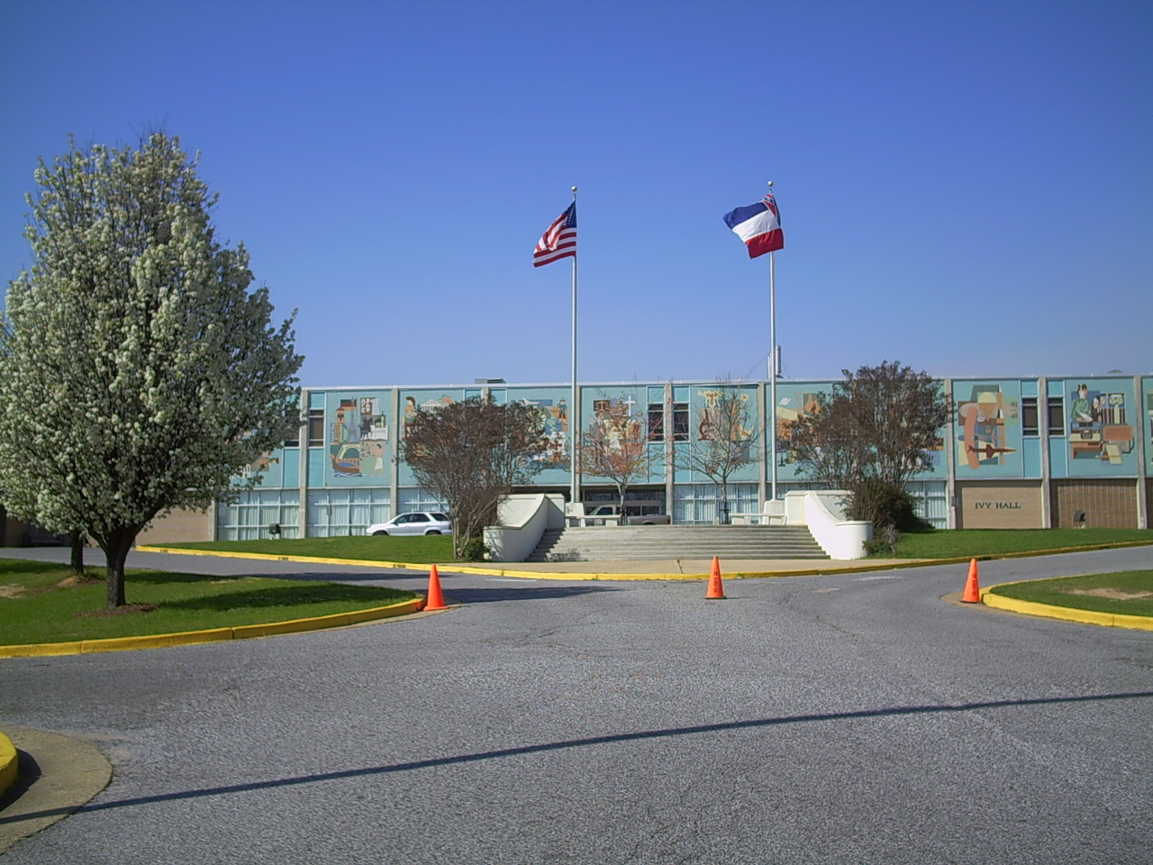 Meridian Community College's Ivy Hall